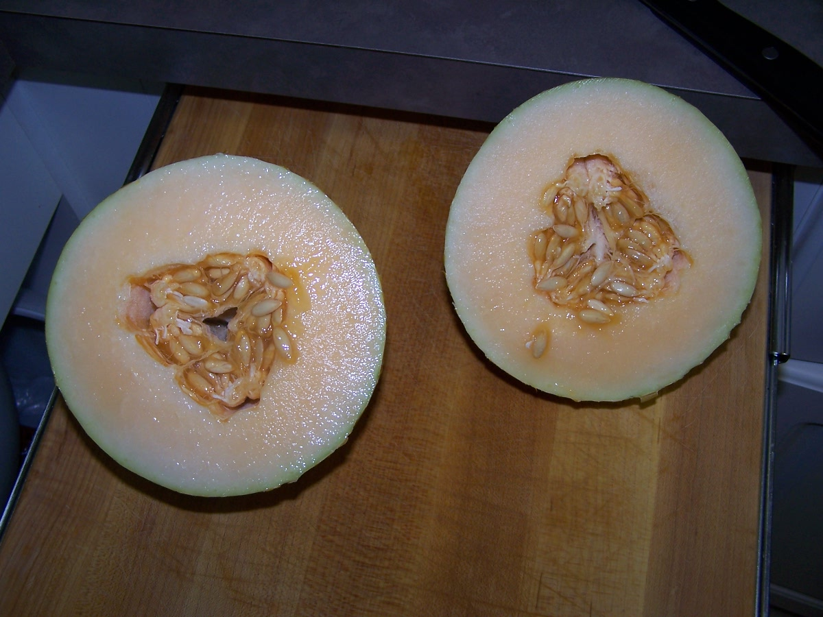 A Hami melon cut in half